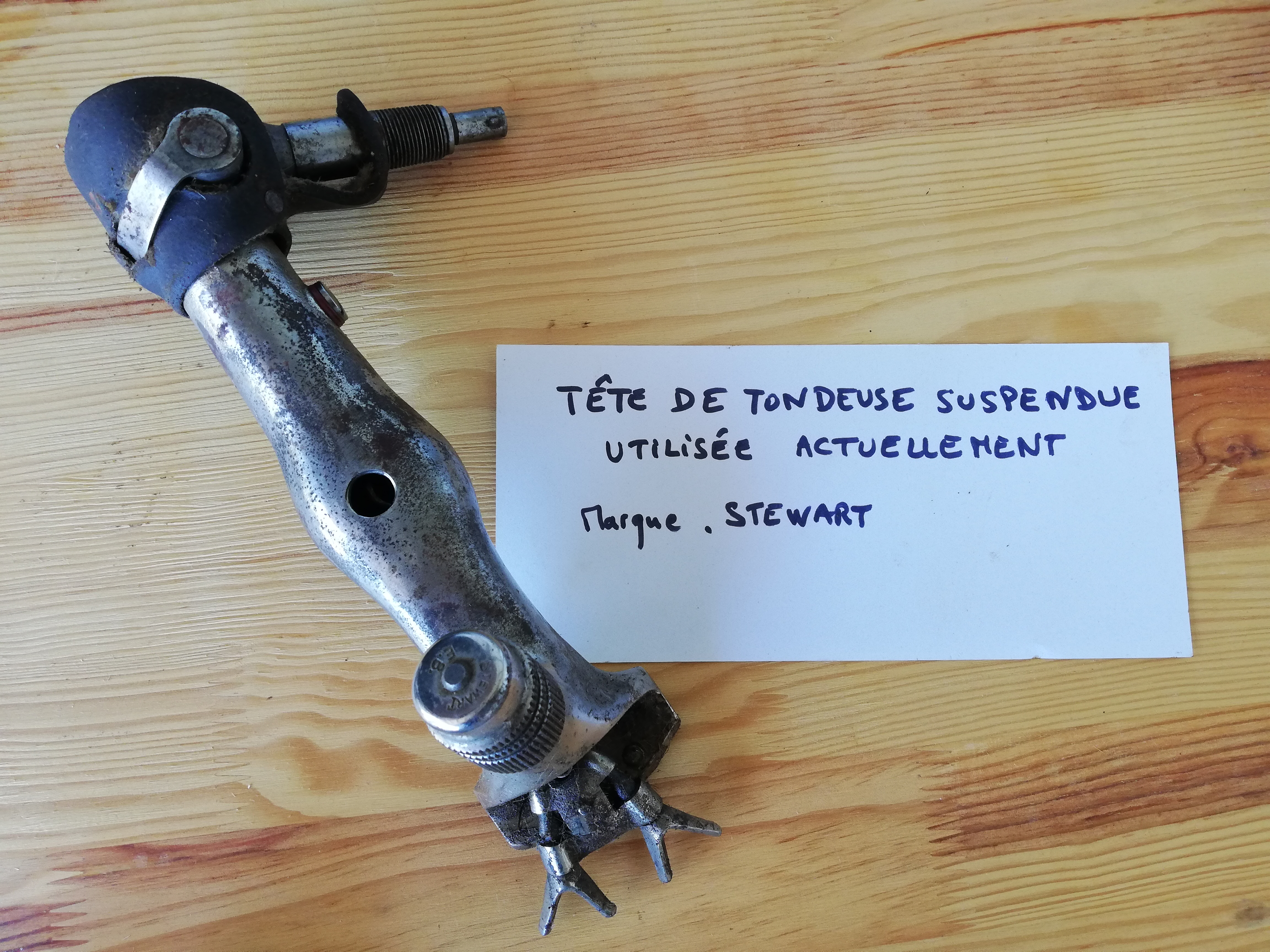 Example of a handpiece for sheep shearing, used in the XXI century